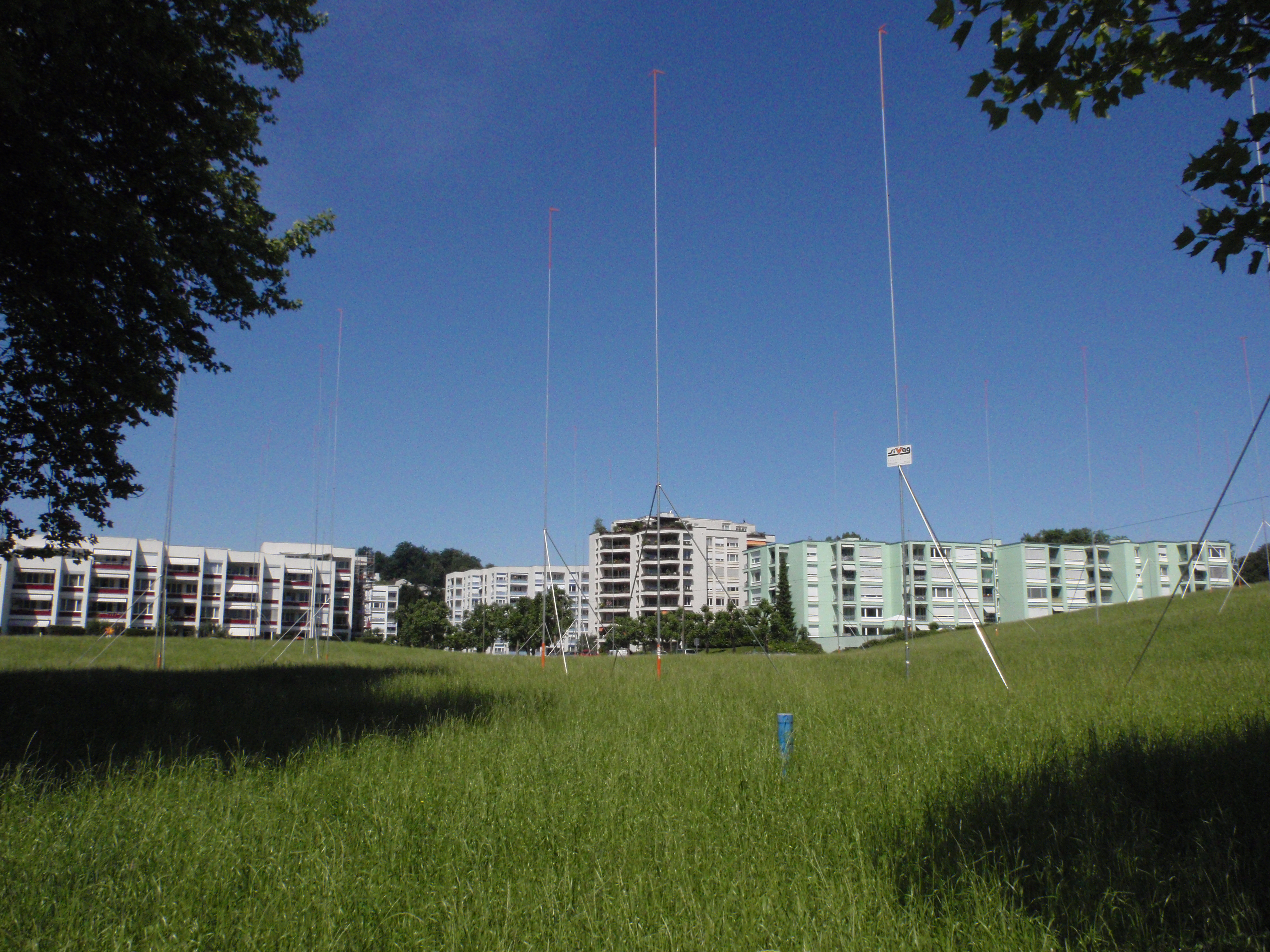 Schönbühlring in Lucerne, Switzerland; some new houses are planned to be built on this meadow in Schönbühl Quarter in Lucerne.